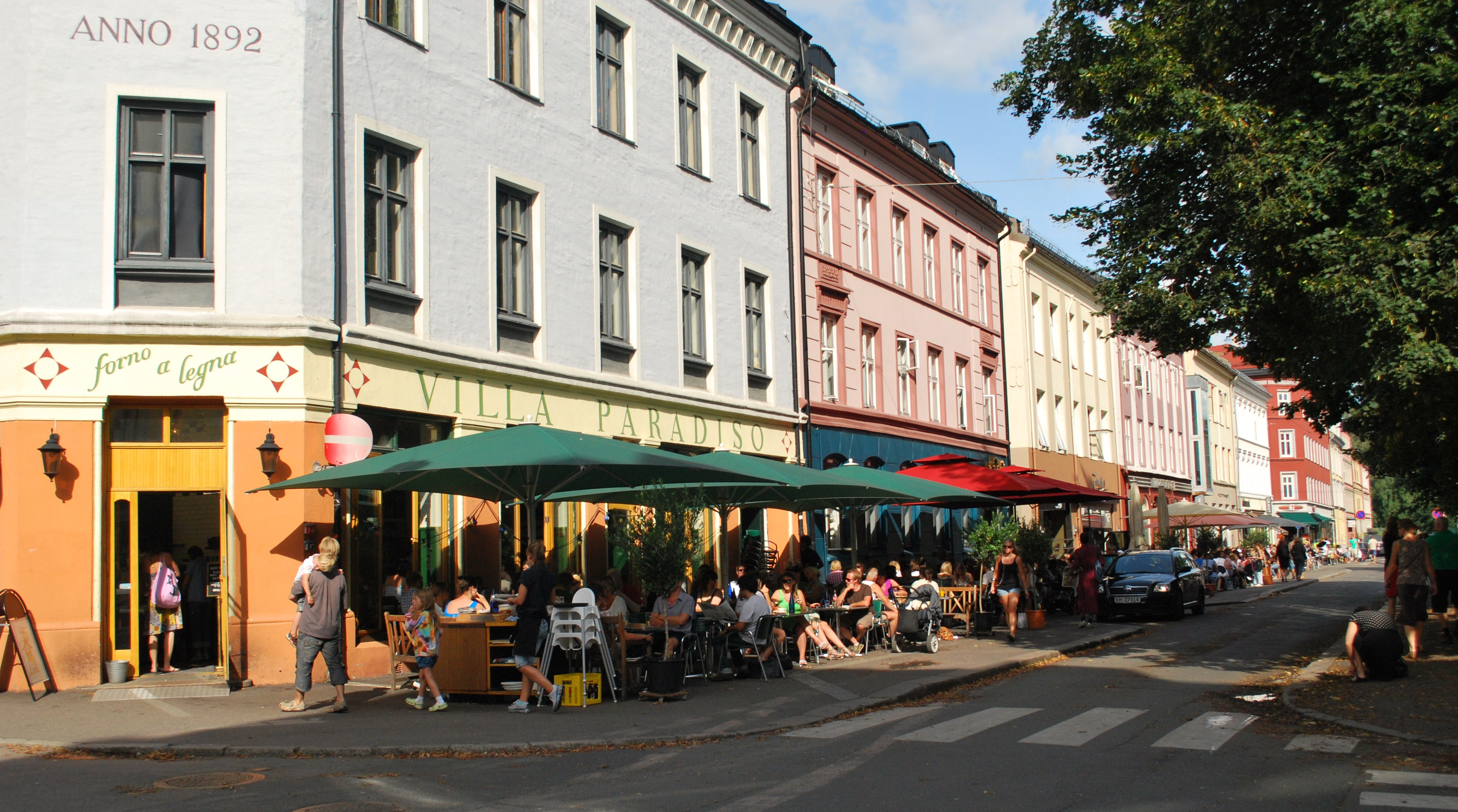 Grüners gate (street), Grünerløkka neighbourhood, Oslo